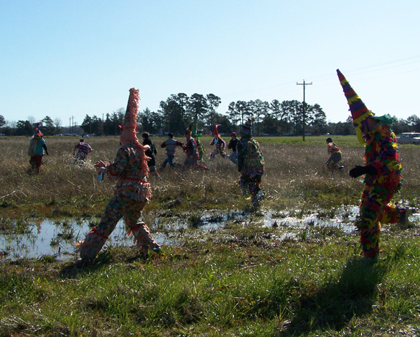 Faquetaigue Courir de Mardi Gras chasing a chicken through a field in 2010.